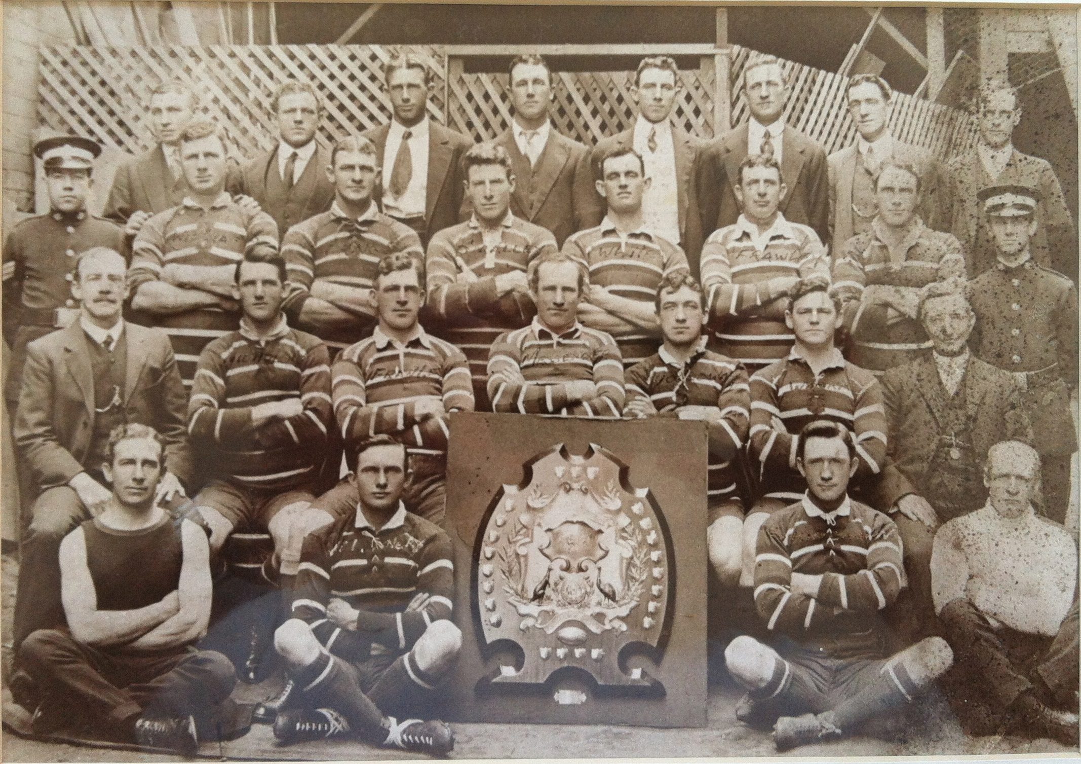 Picture of the Eastern Suburbs team from 1913. The museum caption reads "Eastern Suburbs District Rugby League F.C. 1913. (Premiers 1911-12-13. Winners of Royal Agricultural Society Shield)"